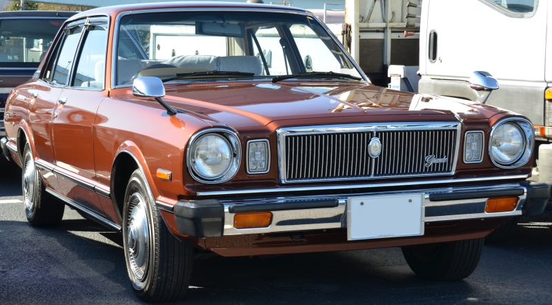 Toyota Corona Mark II Grande